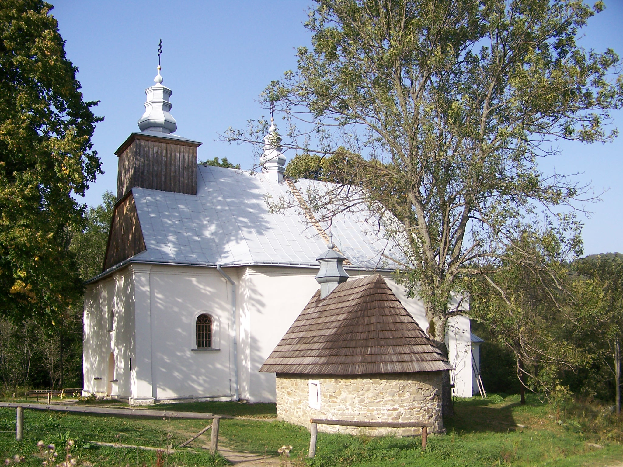 Greek Catholic church in Łopieka, Poland